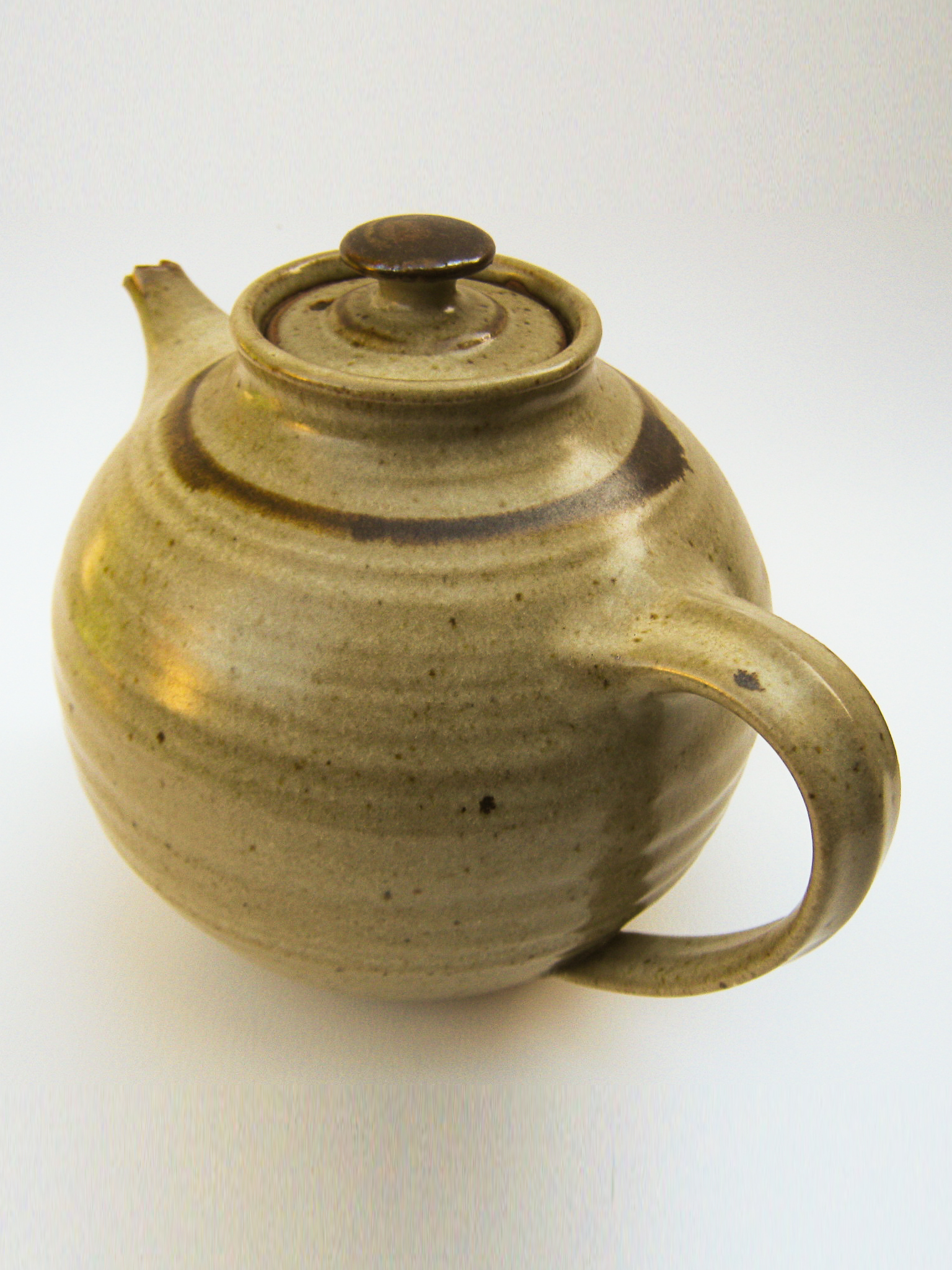 Ash-glazed tea pot by Ian Sprague 1960s; photographed in a private collection at Elwood Victoria